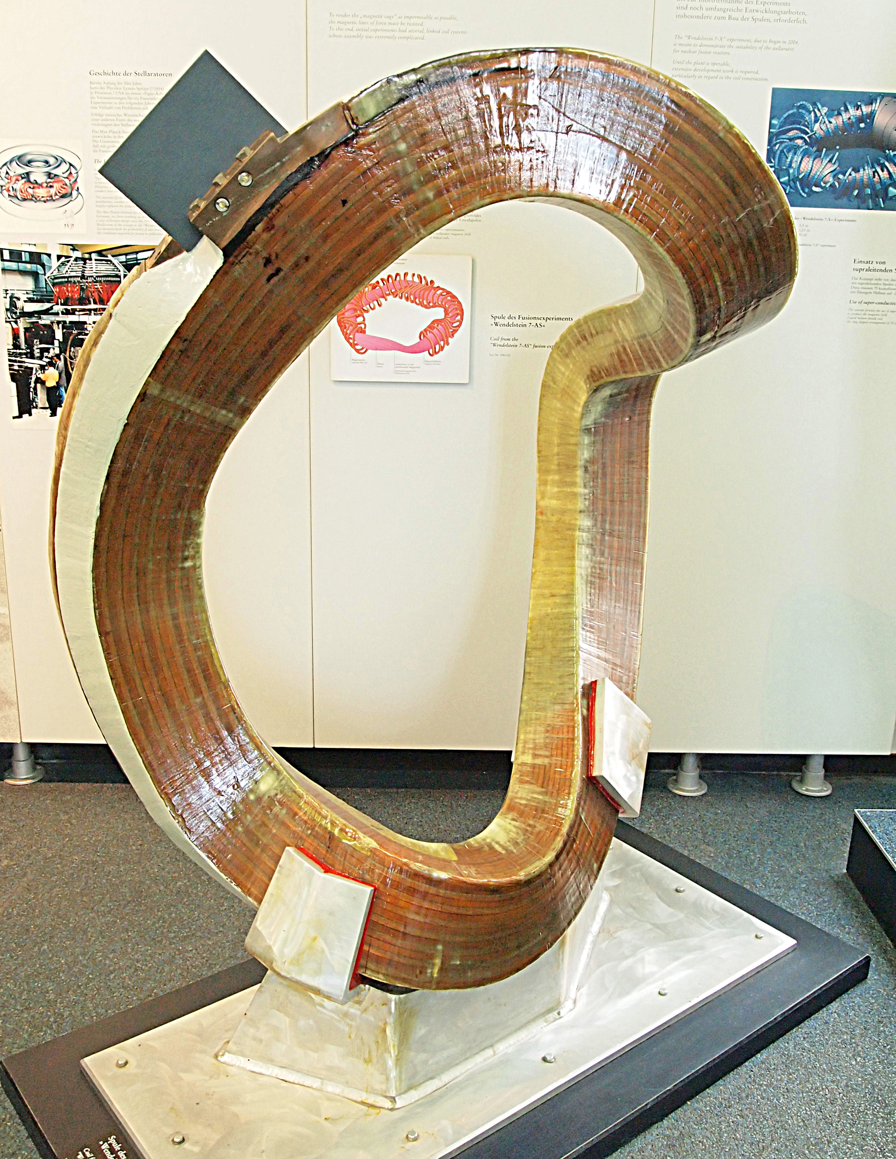 Coil of Wendelstein 7-AS in Deutsches Museum, Munich. This photograph was taken with an Olympus E-PL1.